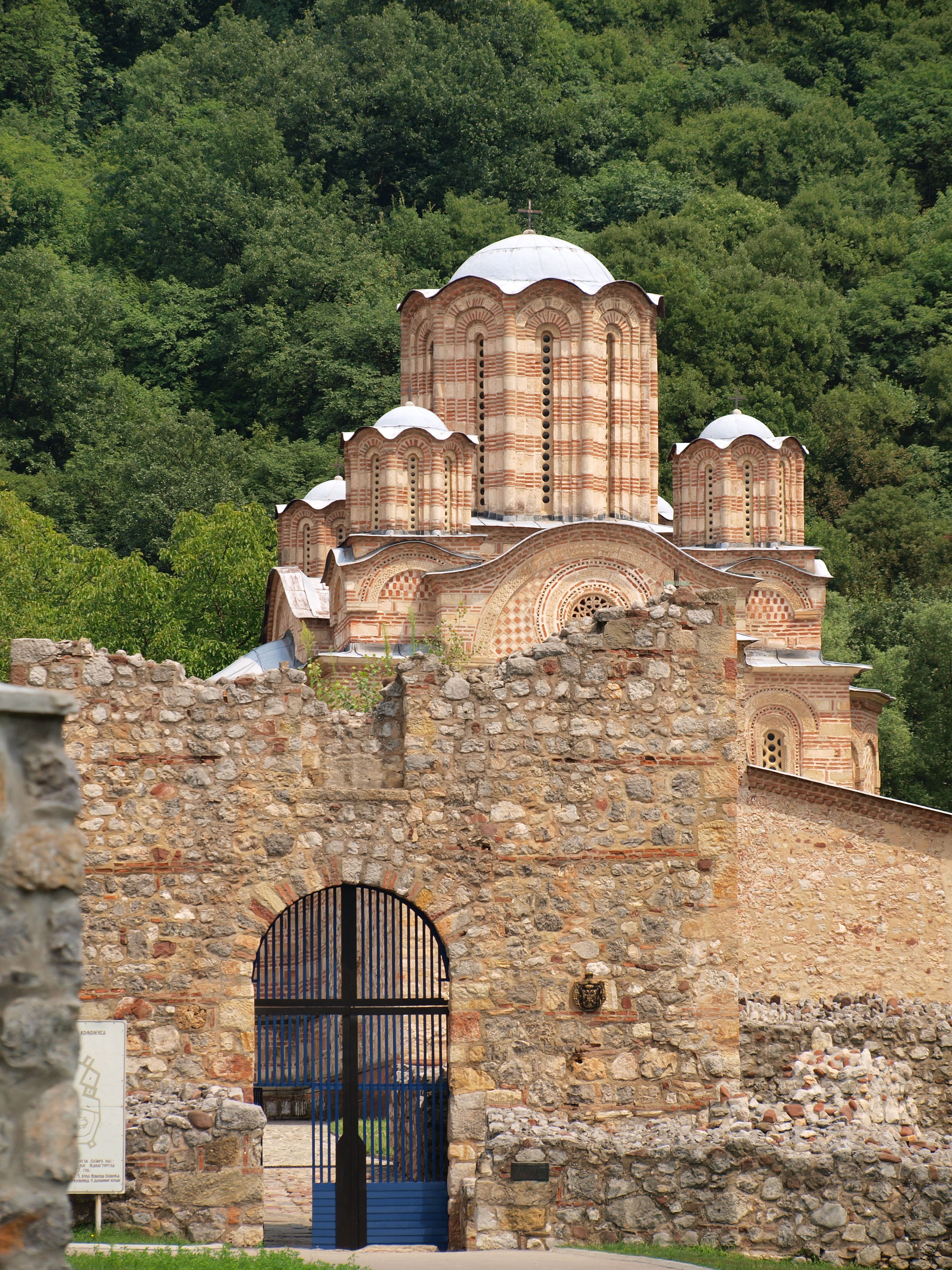 Ravanica monastery with portal, Serbia.